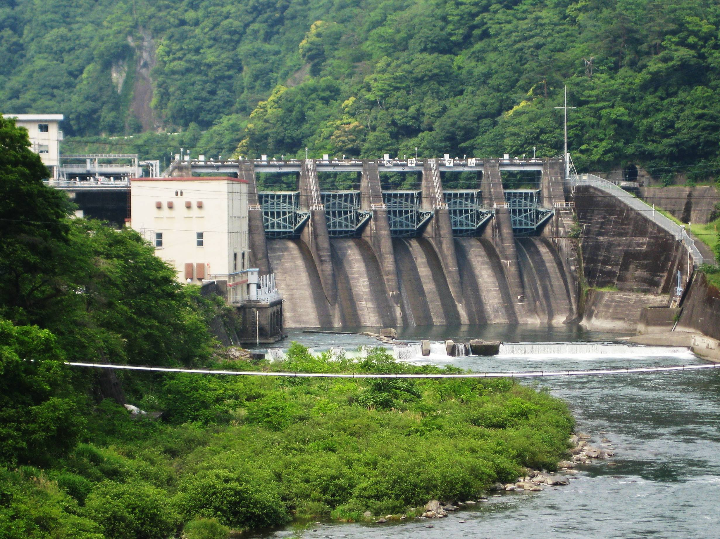 Nishidaira Dam.